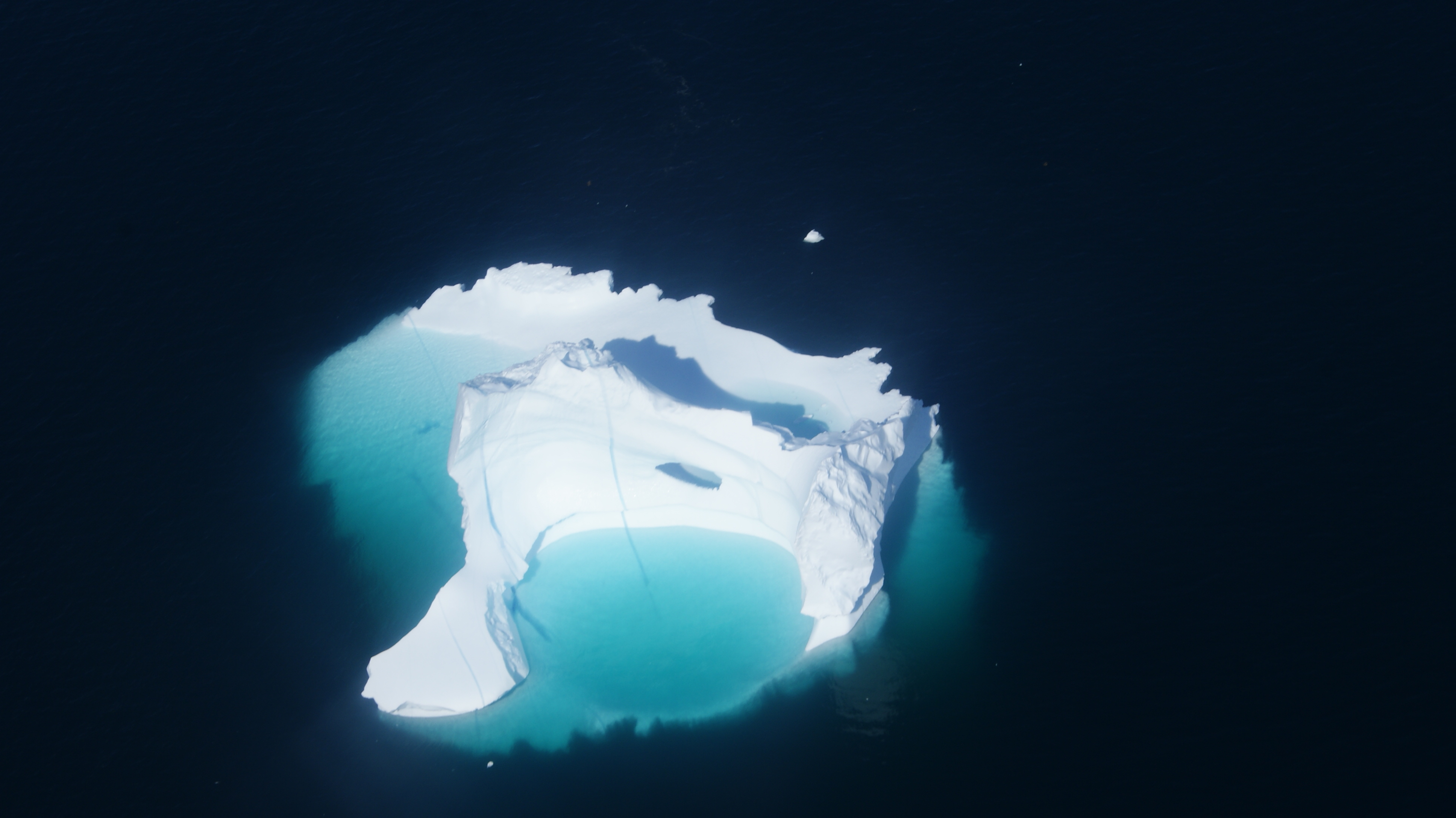 Iceberg in Sarqarput Strait, Uummannaq Fjord, Greenland. Aerial view from Air Greenland Bell 212 helicopter on the Uummannaq-Qaarsut route.